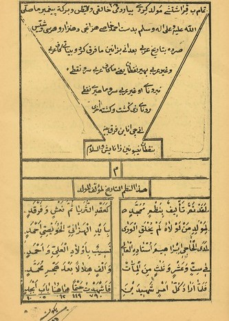 Lithograph of the religious writing (Mevlıd) by Ahmed el-Hassi (Ehmedê Xasi). Zazaki transliteration of the Ottoman Turkish script: Temam be vıraştışê Mewlıdê Kırdi be yardımê Xalıqi u feyz u bereketê peyxemberê ma, sellelahu ‘eleyhi we ‘ela alihi we sellem, be destê Ehmedê Xasi Hezanıc dı henzar u hirê sey u şiyyes serre be tarixê 'Erebi. Be'da nê bızanin ma ferq kerdo beynatê "kaf"ê 'erebki we 'xeyrê 'erebki be hirê nuqtan. Ye’nê, ma “kaf”ê ‘erebki sero nuqtey nêronay, u 'xeyrê erebki sero hirê nuqtey ronay. Zey “gışt” u “kışte”. Axır enê çiyê anini ferq nêbê, be nuqtan nêbo, ninê zanayiş, wes-selam.